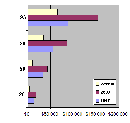 I created the graph myself using data taken from here.